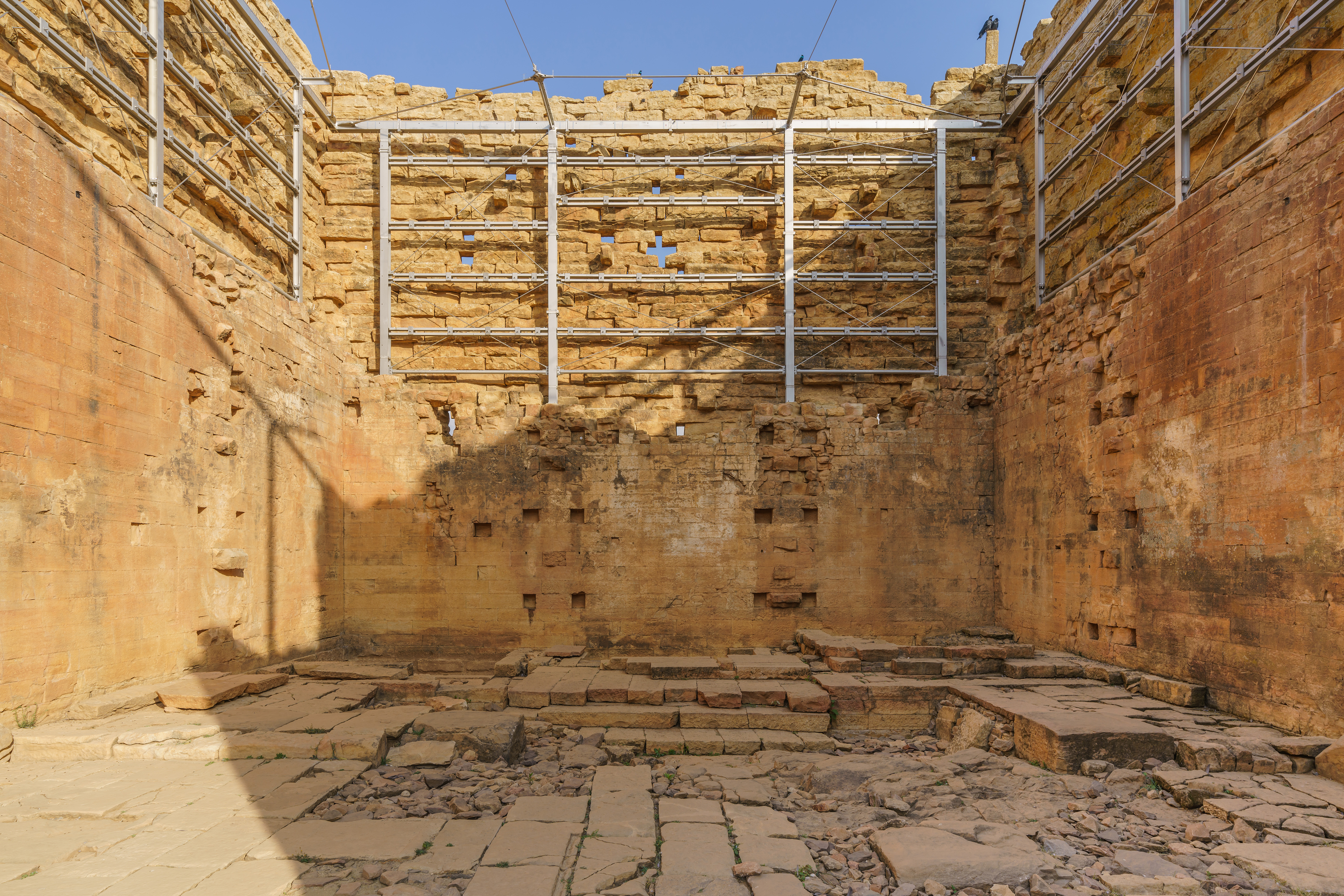 Ruins of ancient temple in the monastery of Yeha in Tigray Region, Ethiopia